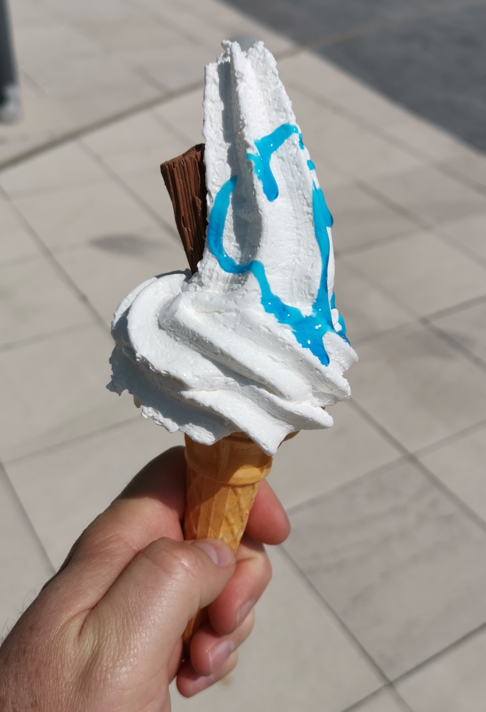 99 Ice-cream with bubblegum flavored syrup